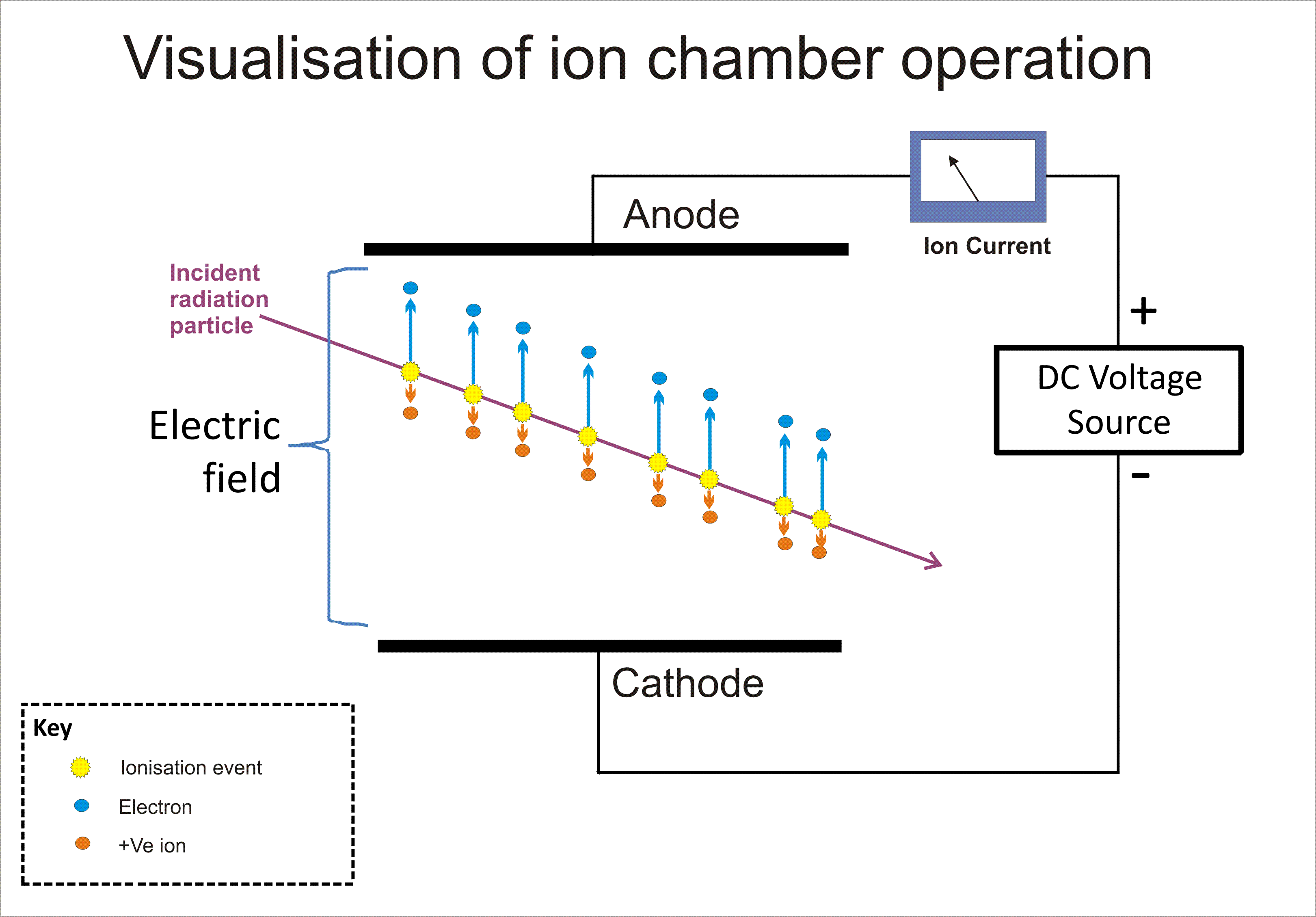 Visualisation of ion chamber operation. An incident radiation particle leaves a trail of ion pairs in its path as it travels through the gas and collides with gas atoms. Each ion pair consists of a free electron, which is attracted to the anode, and a positive ion, which is attracted to the cathode by the influence of the electric field. This movement is known as "ion drift", and ensures that the electrons and positive ions do not recombine, and that an ionisation current is generated, proportional to the number of ion pairs created.